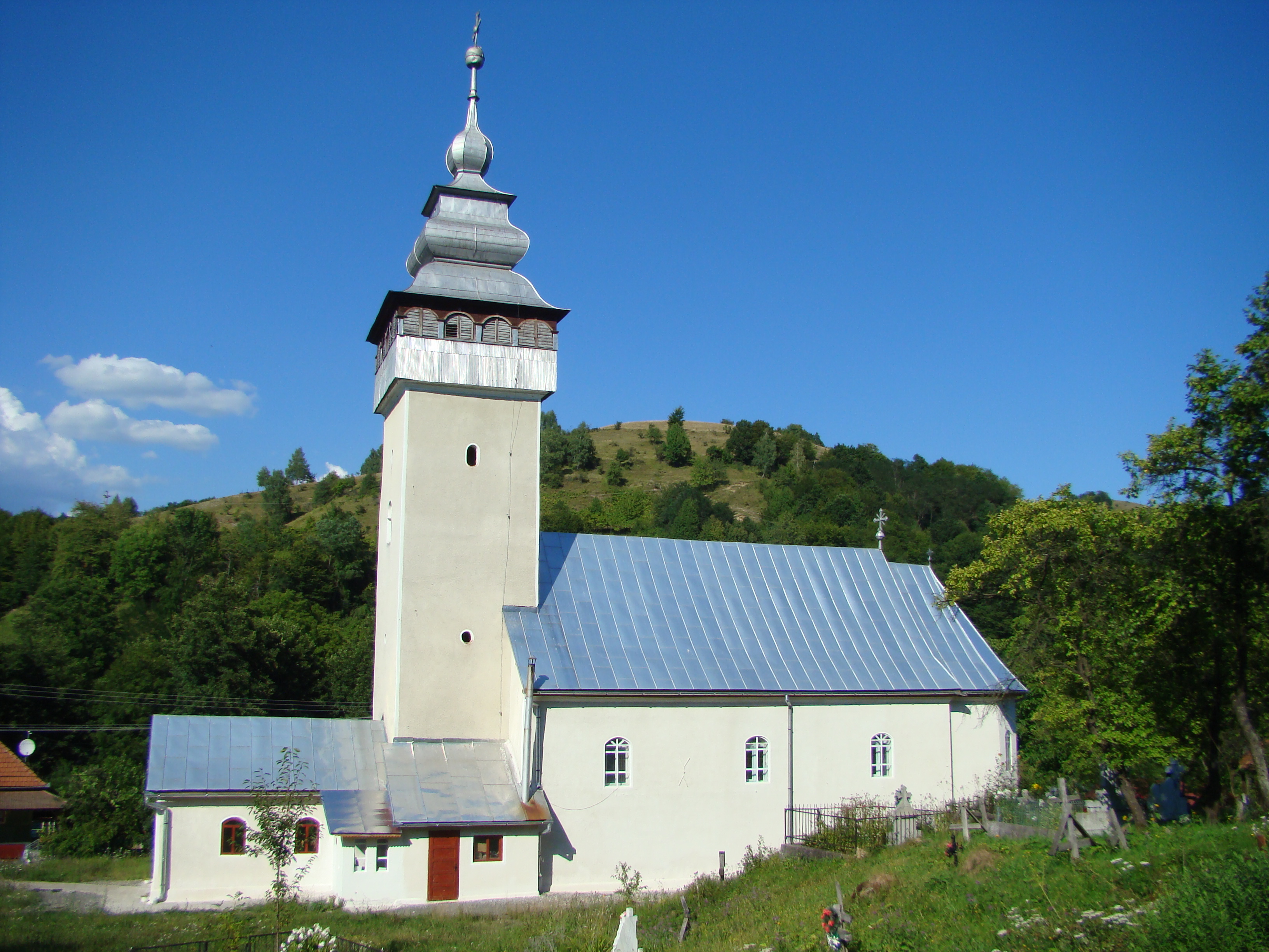 Church of the Transfiguration in Almașu Mare, Alba county, Romania